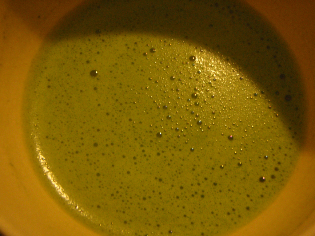 Matcha